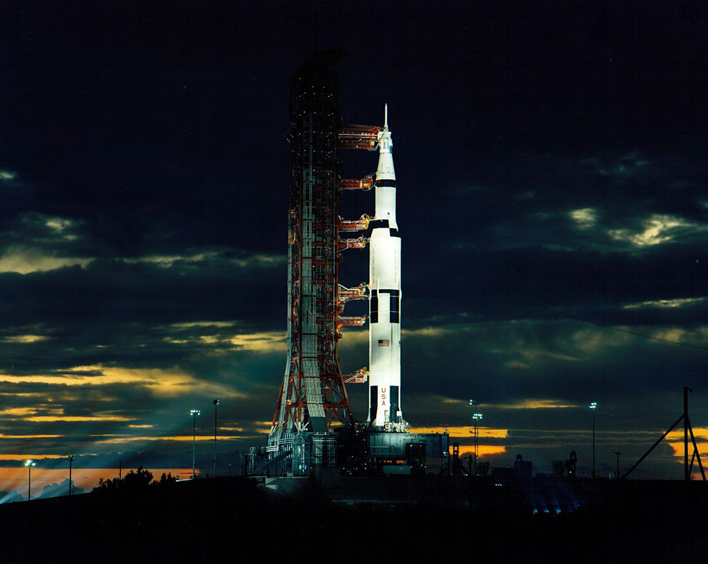 Apollo 17 Saturn V rocket on Pad 39-A at dusk. This was the last human flight to the moon.